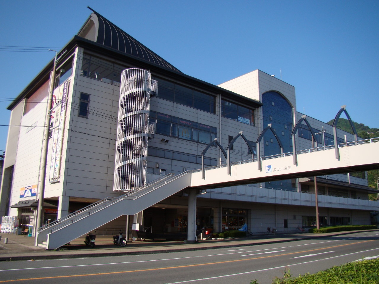 Michinoeki Fujikawa Rakuza by the Shizuoka Prefectural Road 10